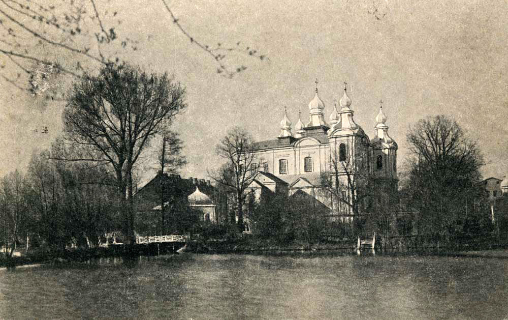 Monastery in Leśna Podlaska. A postcard from the collection of Aleksander Sosna.